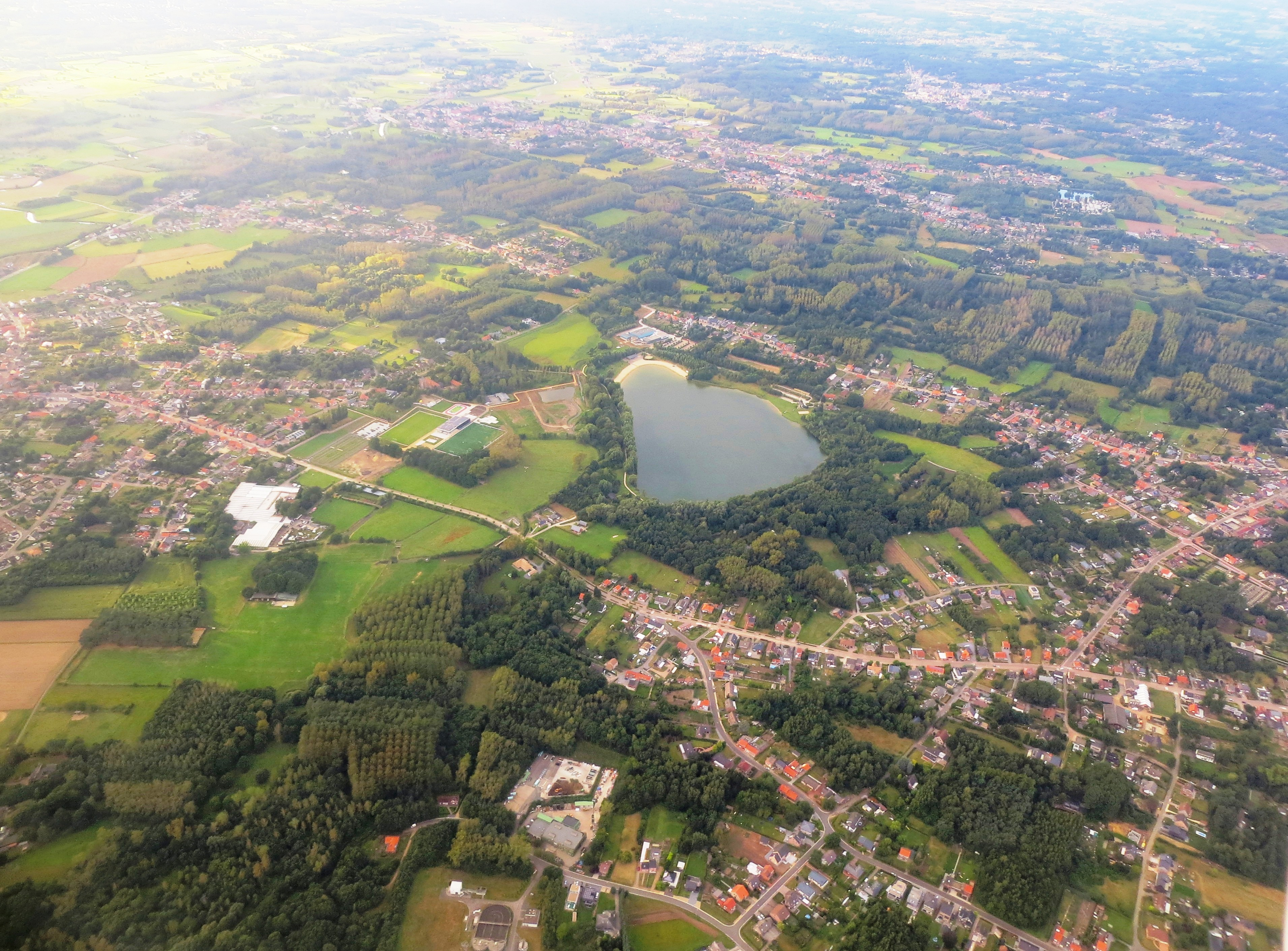 Aerial view from the (south)east towards (north)west, over the Hageland-Leuven region of northern Belgium. This municipality lies north of Brussels and west of Leuwen.